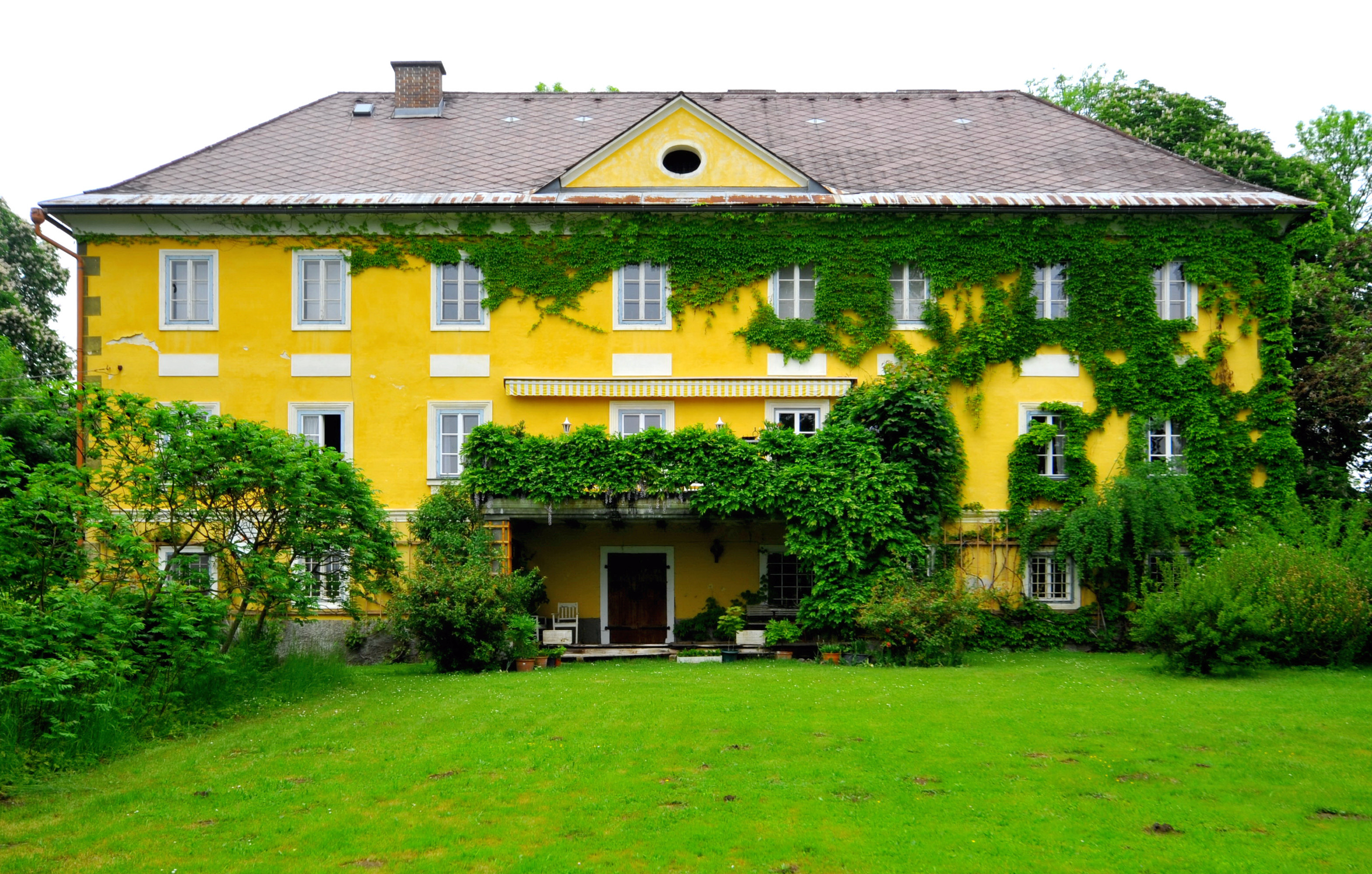 Manor-house "Farchernhof" on the Farchernhofweg #74, situated in the 15th district “Hörtendorf” of the Carinthian capital Klagenfurt on the Lake Woerth, Carinthia, Austria